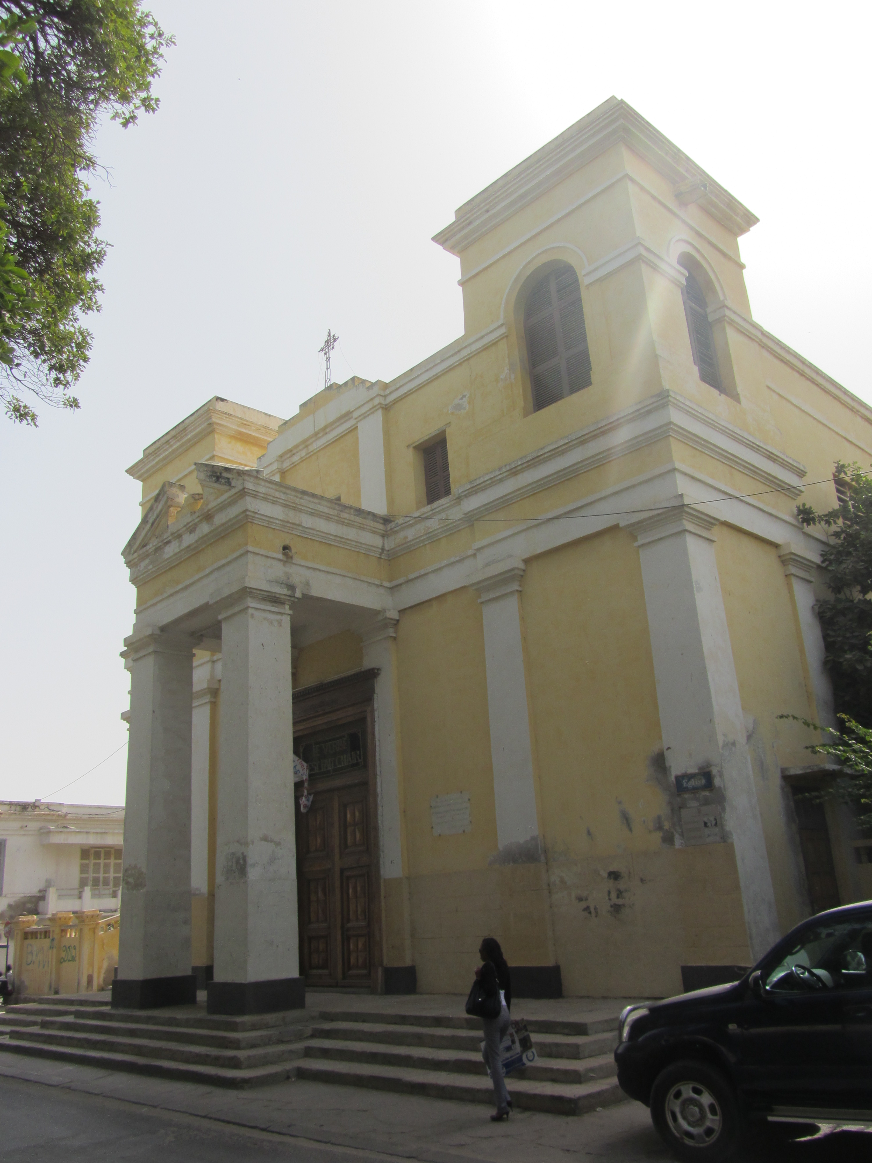 This document was produced using the Canon PowerShot SX230 HS lent by Wikimedia France.